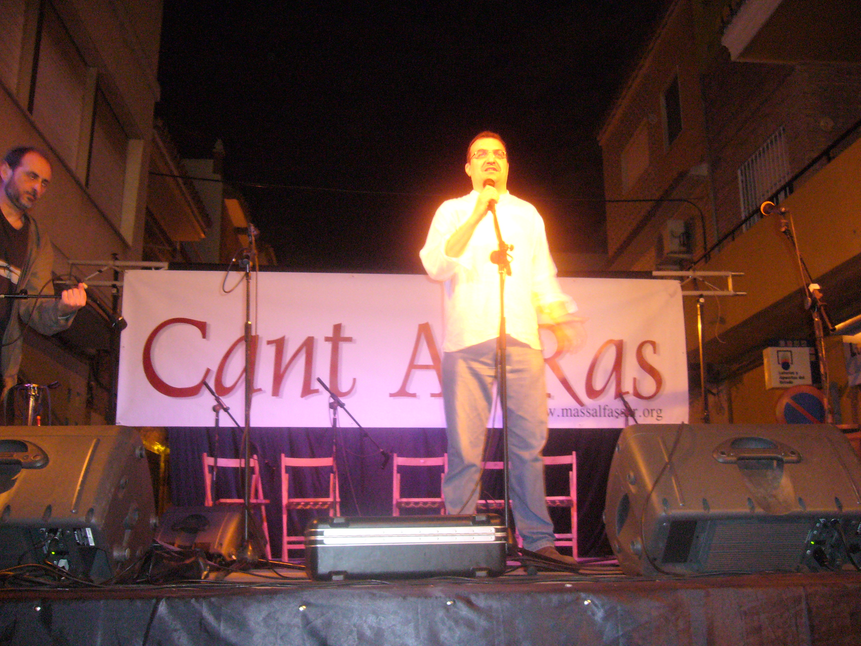 Cant al ras